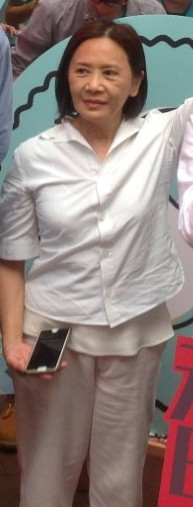 Deanie Ip, in 2016.